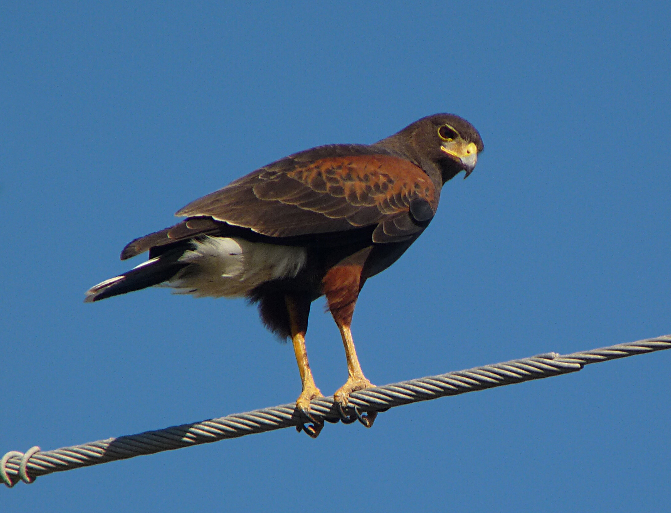 Caught this as I was riding down Airline, heading towards Yorktown - probably two blocks from Saratoga, Corpus Christi, Texas.